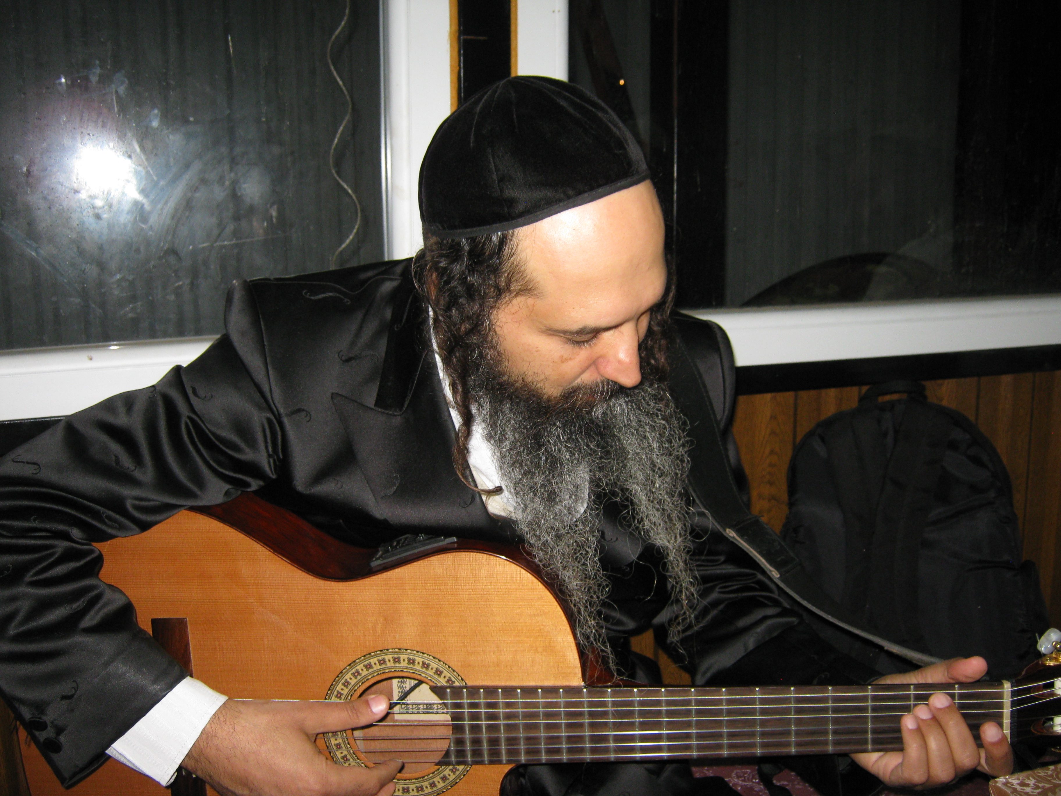 Singer Yosef Karduner performing at a kumzits in Uman on Motzaei Rosh Hashana, 2013